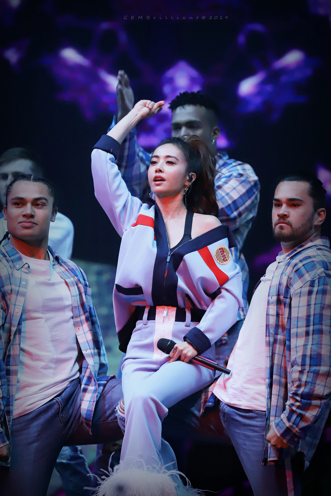 Jolin Tsai performing in 2019